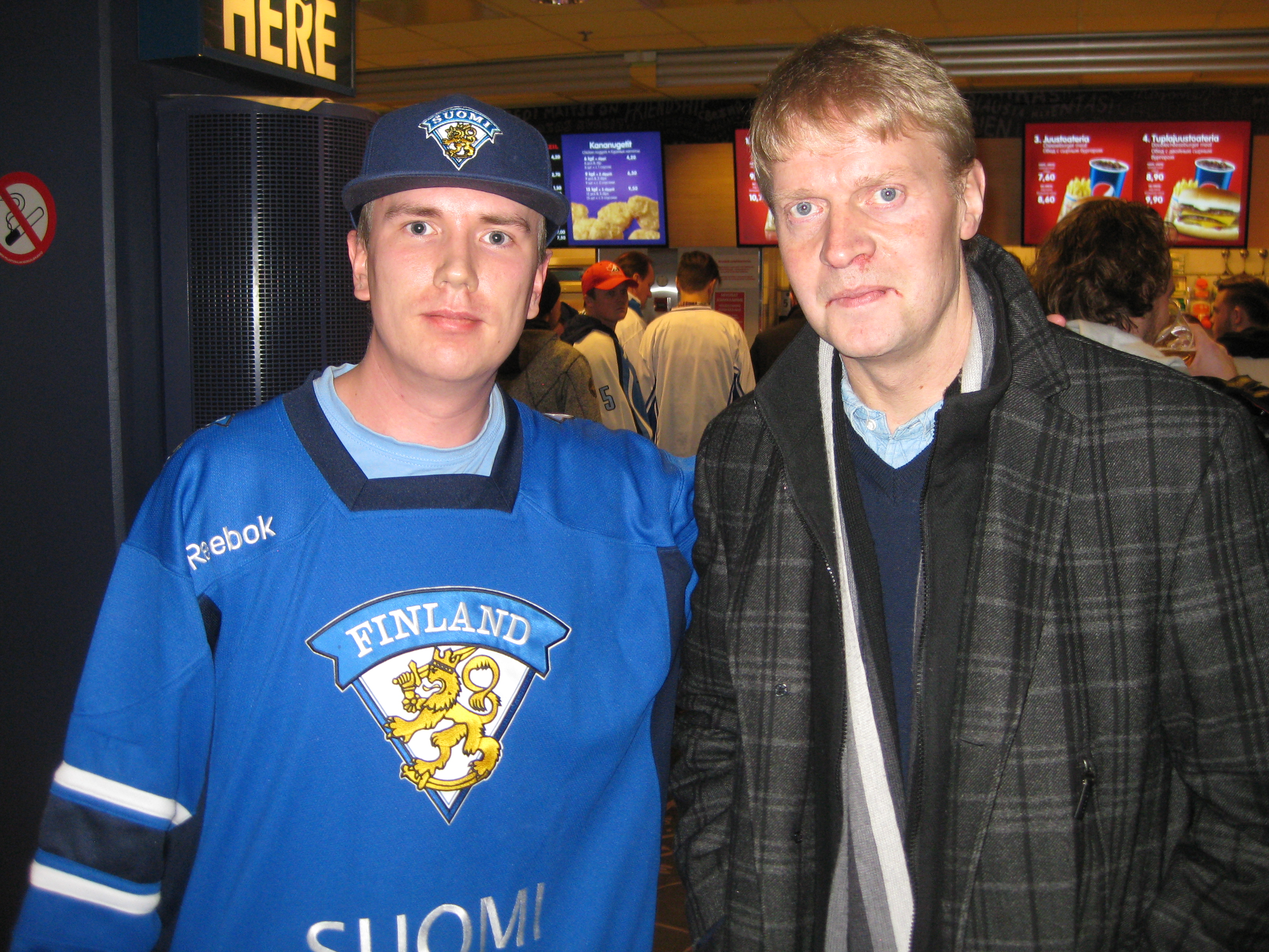 Don Bigileone & Jukka Rautakorpi before Russia vs. Finland 2016 IIHF World Junior U20 Championship final at Hartwall Arena in Pasila, Finland on 5th of January 2016.